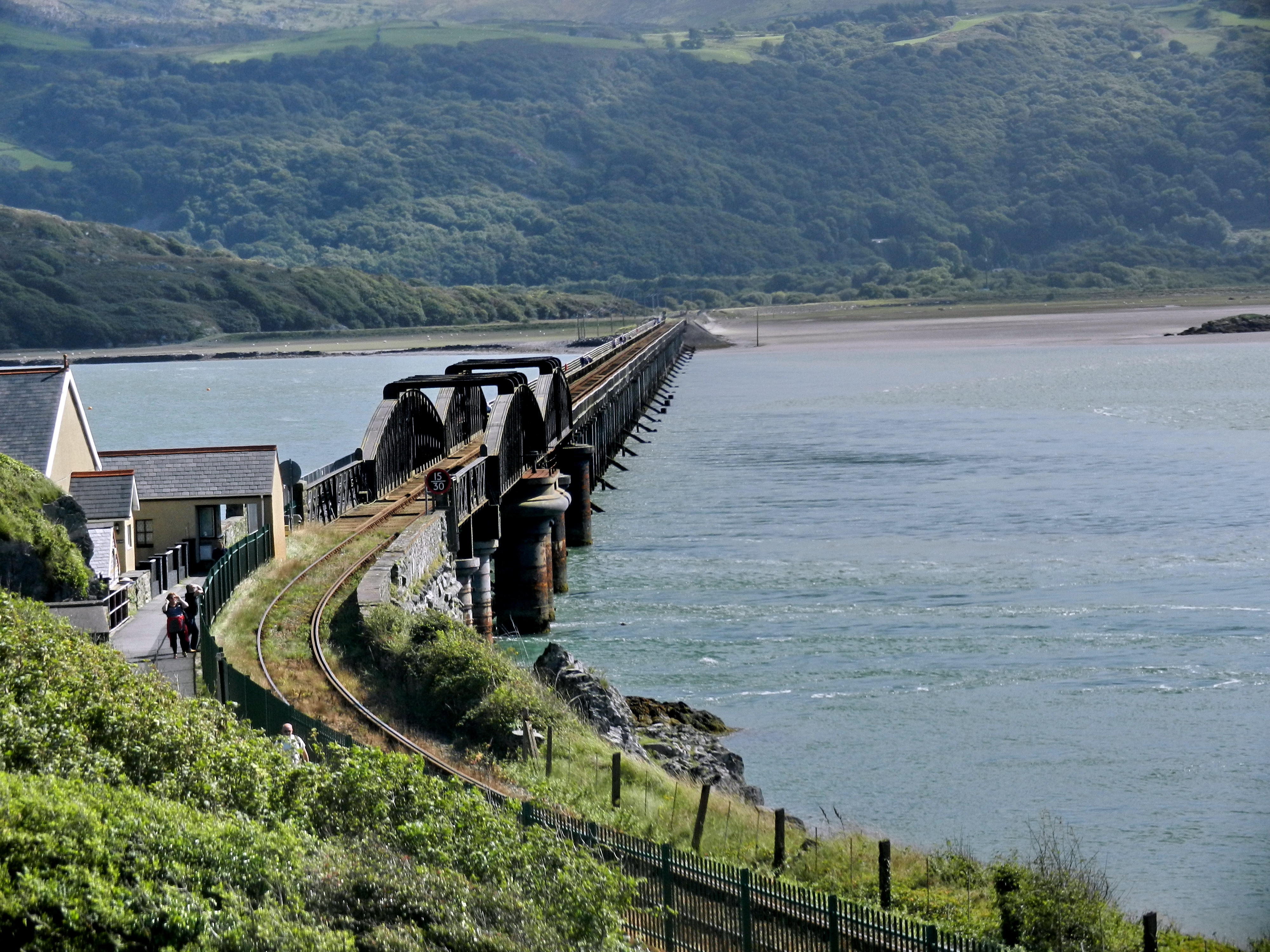 Barmouth Railway bridge